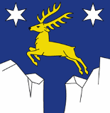 Flag of Rüthi, Canton of St. GallenEsperanto: Flago de Rüthi, Kantono de Sankt-Galo